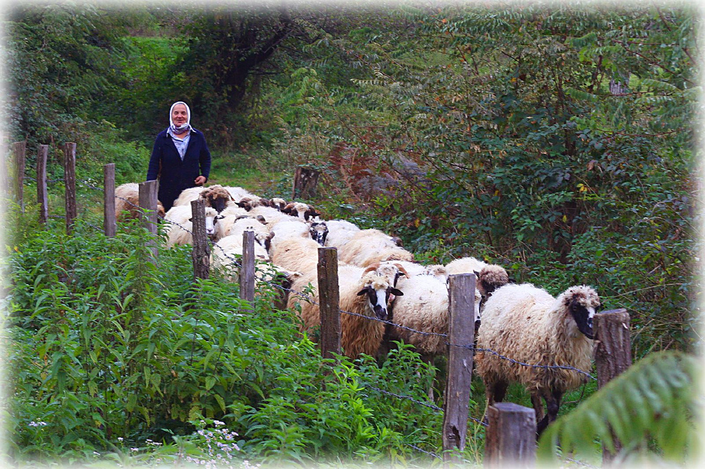 En route to Potočari, BiH.